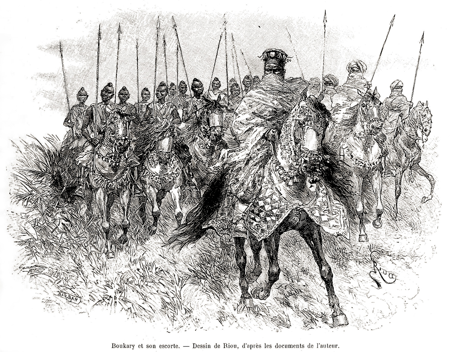 Boukary Koutou, also known as Wobgho, the Mossi King of Ouagadougou with his personal escort of Mossi cavalry, Burkina Faso. From "Du Niger au Golfe de Guinée par le pays de Kong et le Mossi" by Binger, Louis Gustave, 1892, page 35, illustrated by Édouard Riou.